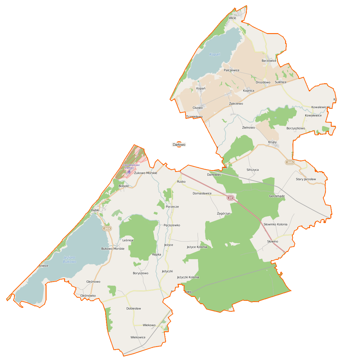 Map of Gmina Darłowo, Poland This map of Darłowo (gmina wiejska) was created from OpenStreetMap project data, collected by the community. This map may be incomplete, and may contain errors. Don't rely solely on it for navigation.